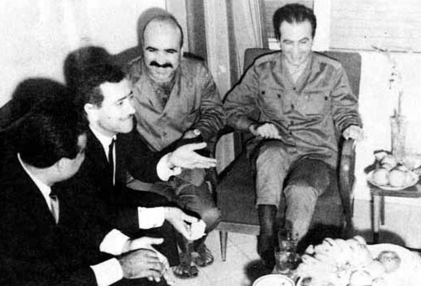 Senior officials in the Baath Party in a rare un-official photograph with Salah Jadid from 1969 / From left to right: Interior Minister Mohammad Rabah al-Tawil, Chief of Staff General Mustapha Tlass, Commander of the Golan Front Ahmad al-Meer, and Salah Jadid, the military strongman of Syria